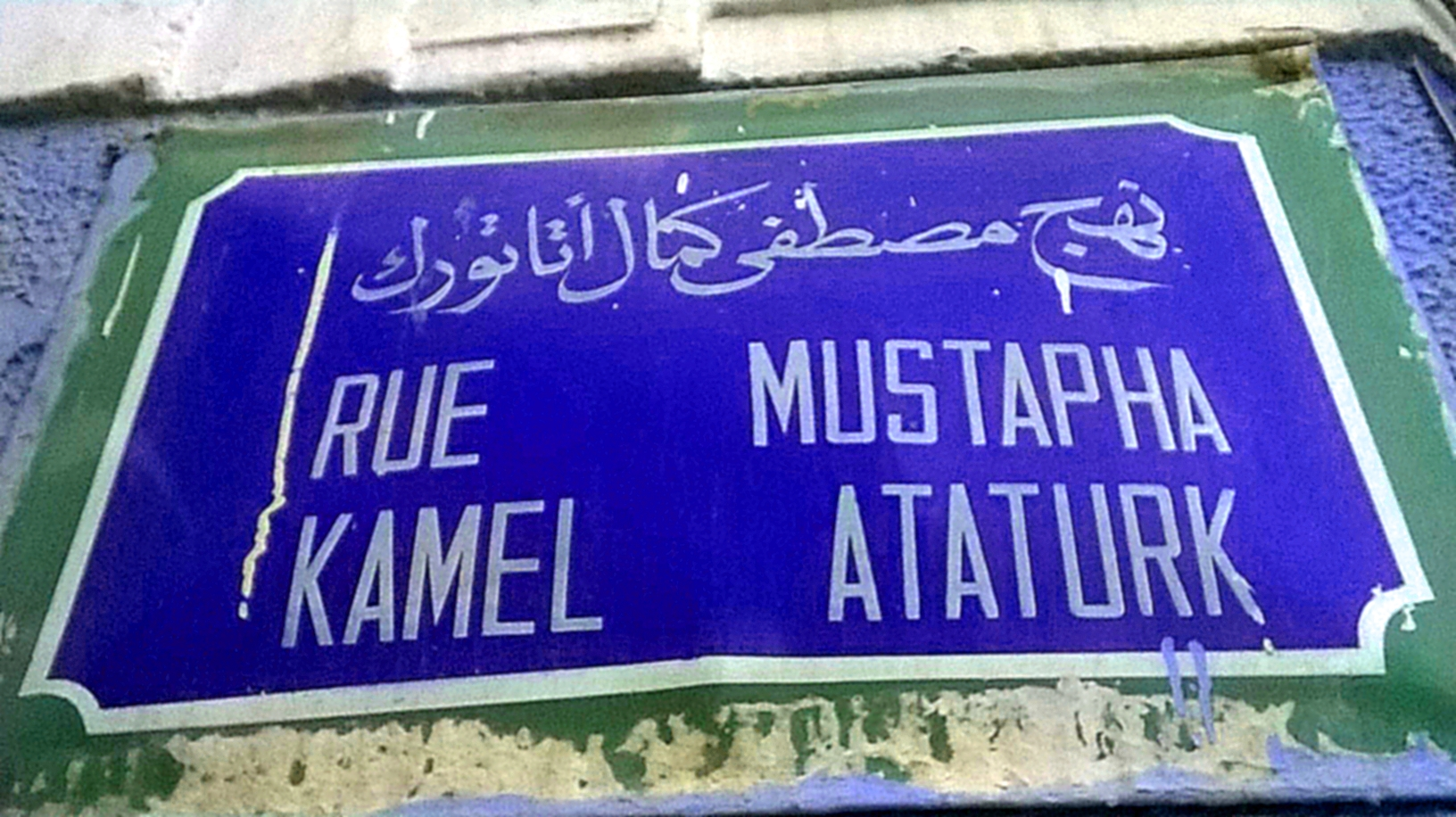 Mustafa Kemal Ataturk street in TunisTürkçe: Tunus'ta Mustafa Kemal Atatürk Caddesi